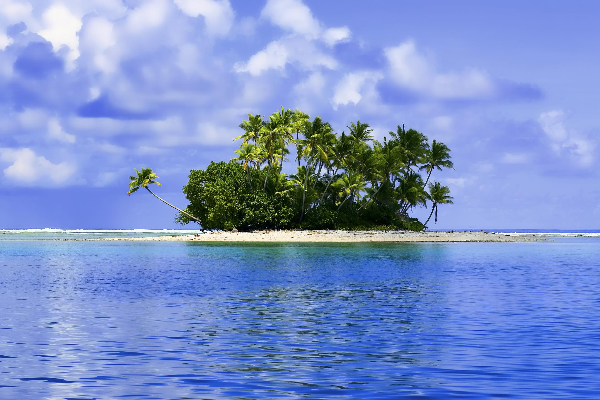 Your own private island.